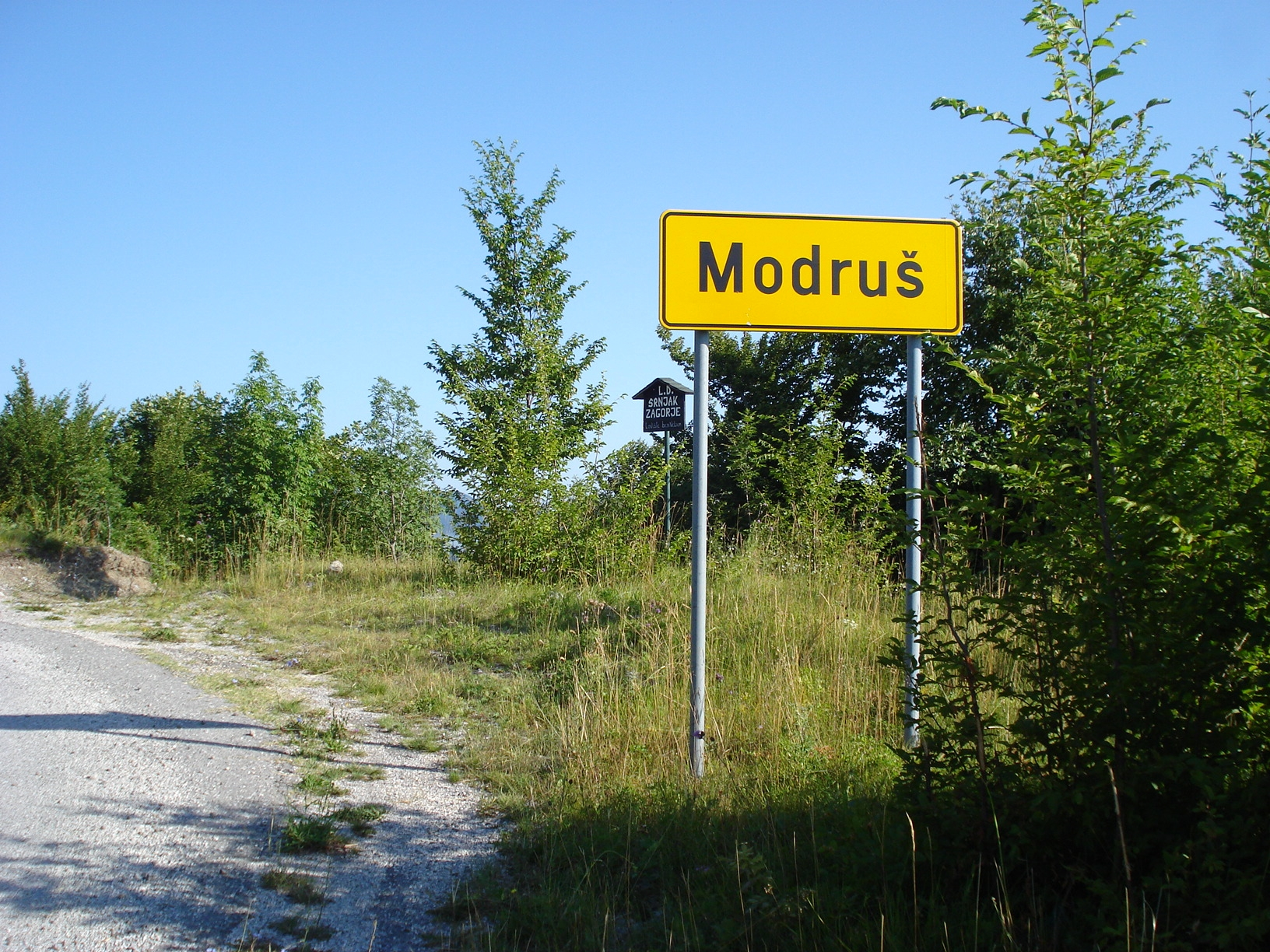 Modruš, village in Croatia - entrance